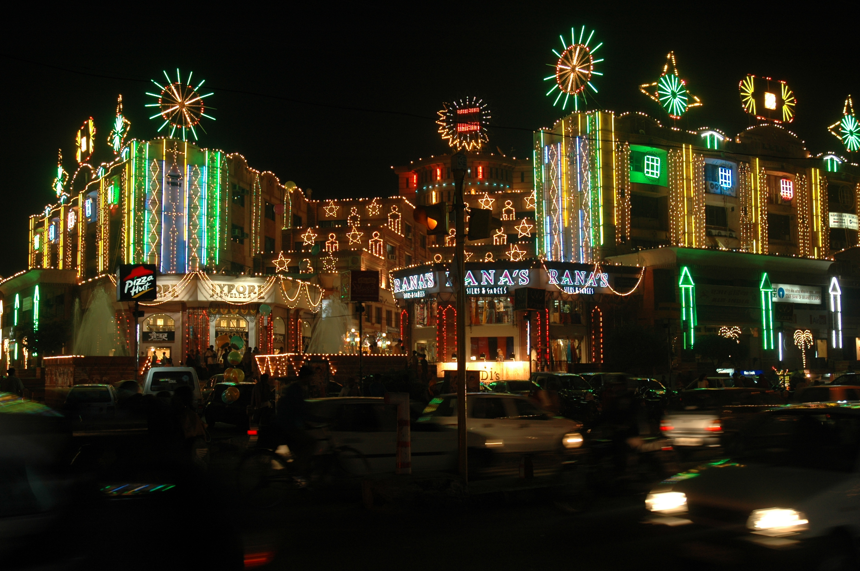 Lights for Diwali festival in Jaipur